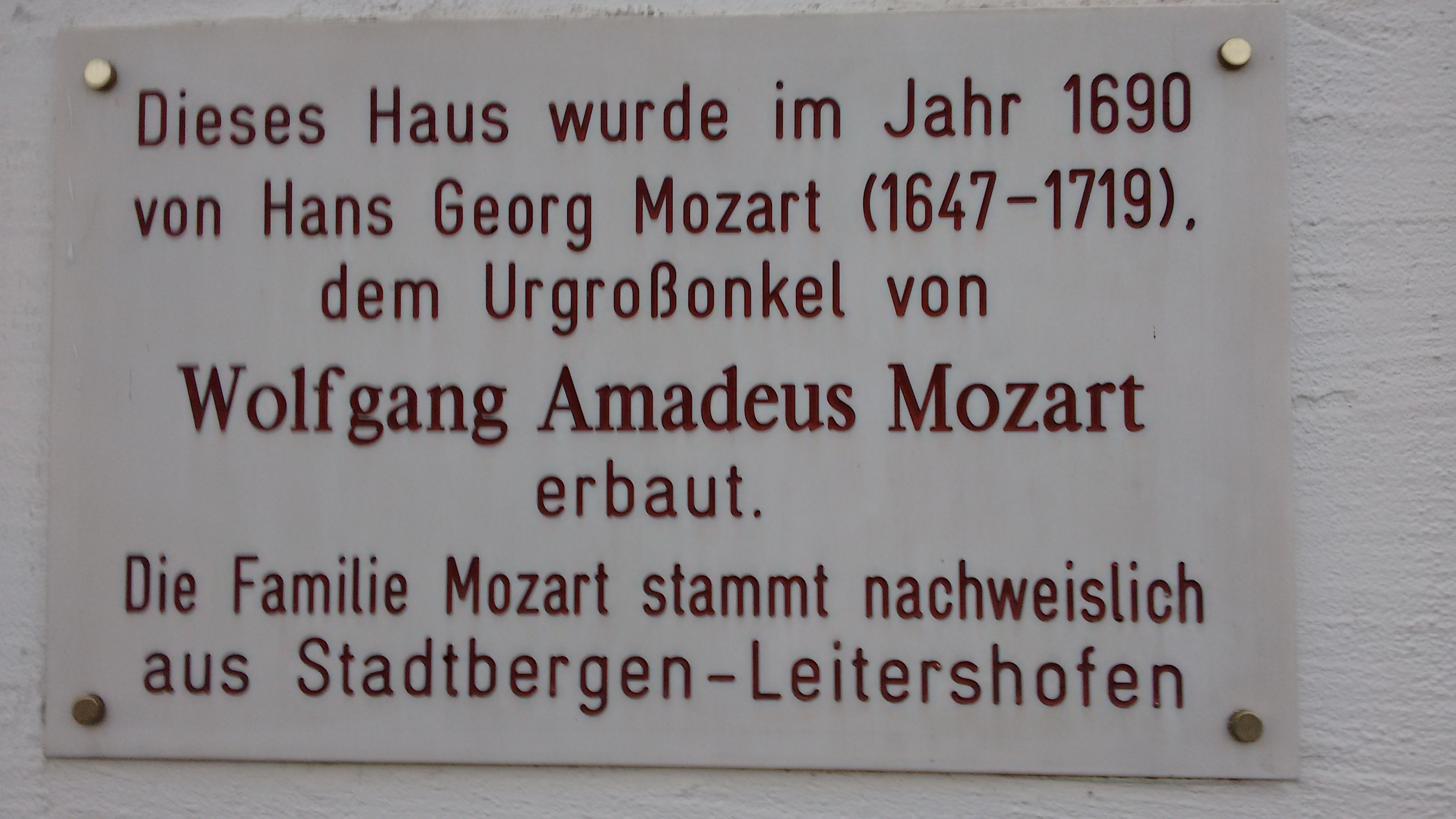 Table on Braeuhaus Stadtbergen: Dieses Haus wurde im Jahr 1690 von Hans Georg Mozart (1647-1719), dem Urgroßonkel von Wolfgang Amadeus Mozart erbaut. Die Familie Mozart stammt nachweislich aus Stadtbergen-Leitershofen